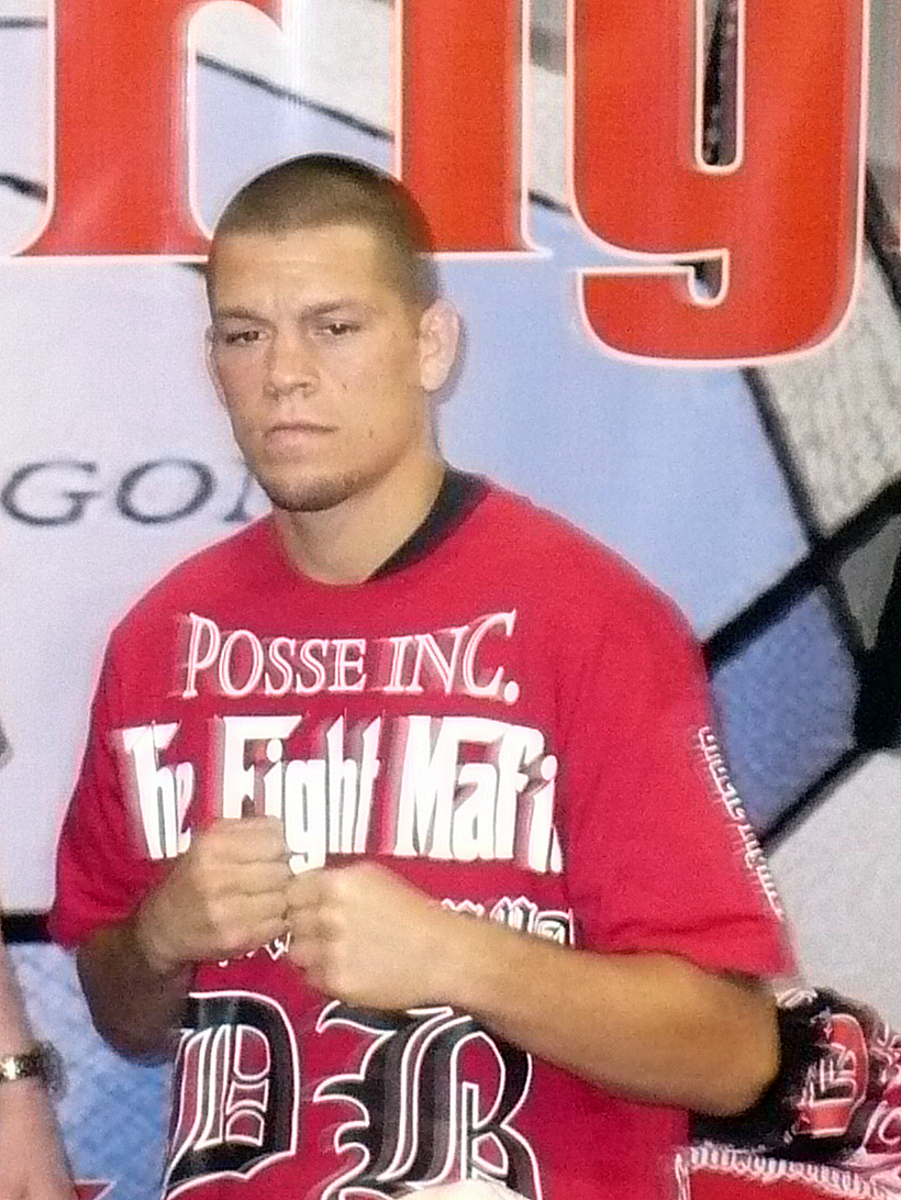 Nate Diaz at the first UFC Fan Expo in Las Vegas, NV